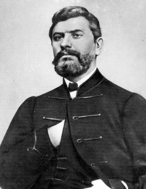 Croatian 19th century politician Ante Starčević.